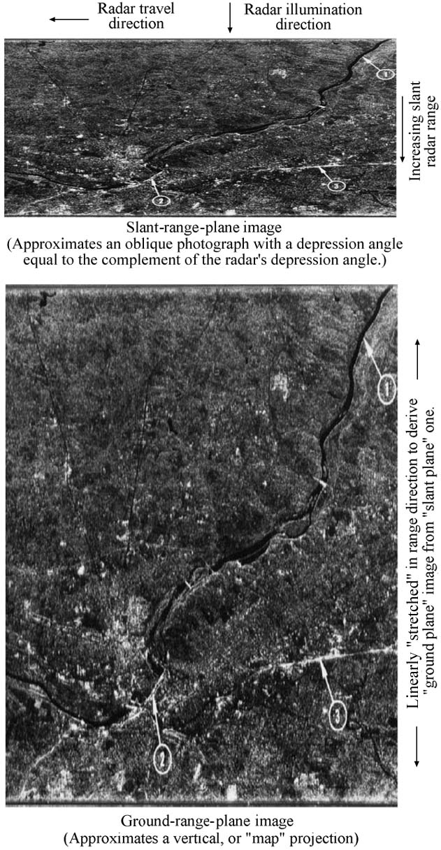 One of the few still-available images made by the Quill satellite radar covered part of Richmond, VA. To present both ground-plane and slant-plane versions of that image here, these copies have been digitally altered to accomplish the appropriate amounts of "range-stretching" and "range-compressing" by amounts that are indicated by the distortions of what were callout circles. The large difference exists because Quill used an unusually steep depression angle.